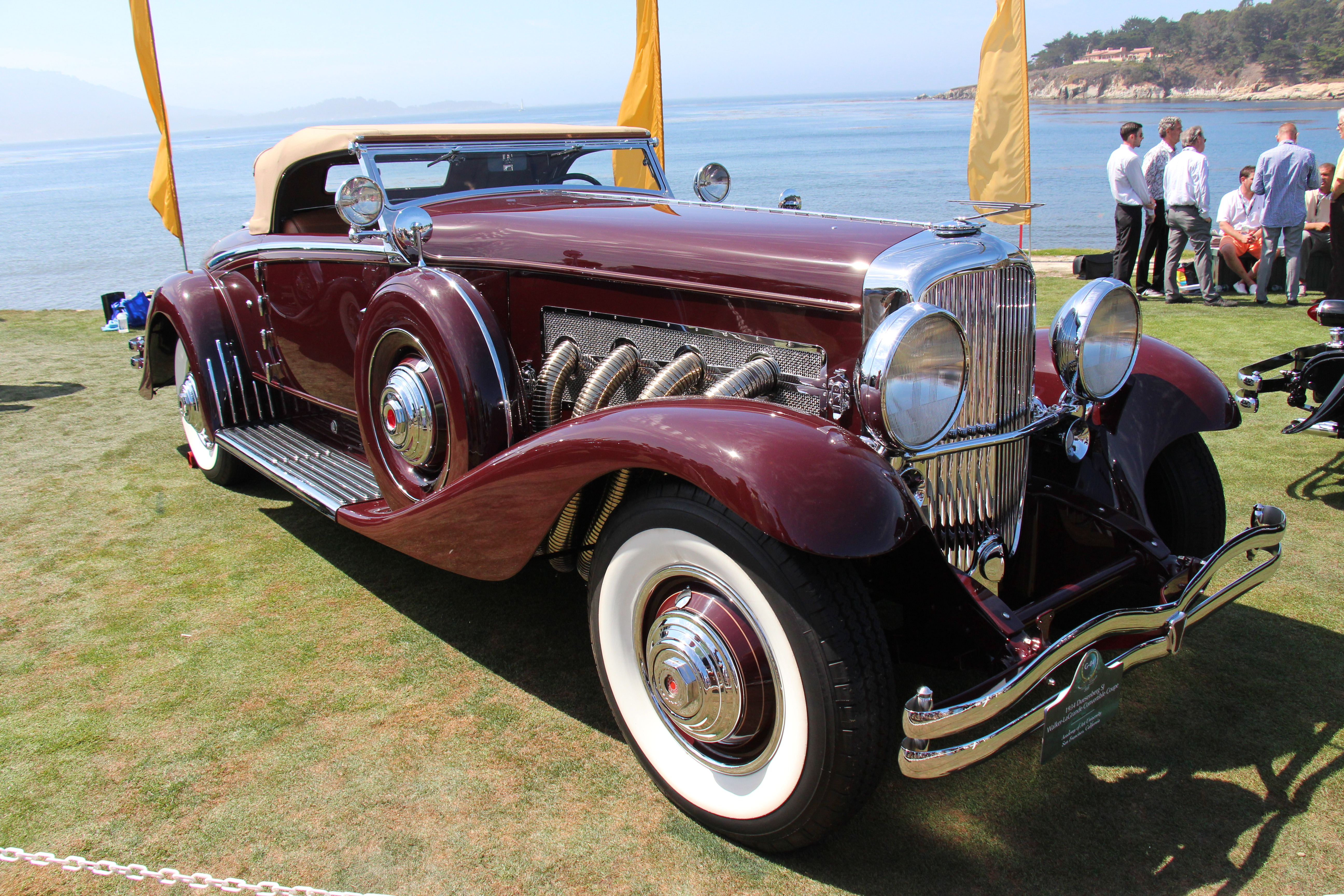 At the turn of the last century, Iowa bicycle makers August and Fred Duesenberg tinkered with gasoline engines and by 1913 Duesenberg Automobile Motors was manufacturing cars. E.L.Cord, who also owned Auburn bought Duesenberg in 1926. The Model J Duesenberg was a luxury car built from 1928-37. More famous people bought the Model J than that of any other American car. They had a 420 cu in straight 8 engine. Walker-LaGrande produced just three of these remarkable Model J Convertible Coupes, this the only supercharged version. Instead of the convertible top being cumbersome and difficult to operate, the top on these cars were easy to detach and retract, all with the help of a hand crank positioned inside the car, the entire top disappeared underneath a flush-mounted metal lid. In an instant the car could transform from coupe to a modern open-top convertible. Photographed at the 2015 Pebble Beach Concours d'Elegance